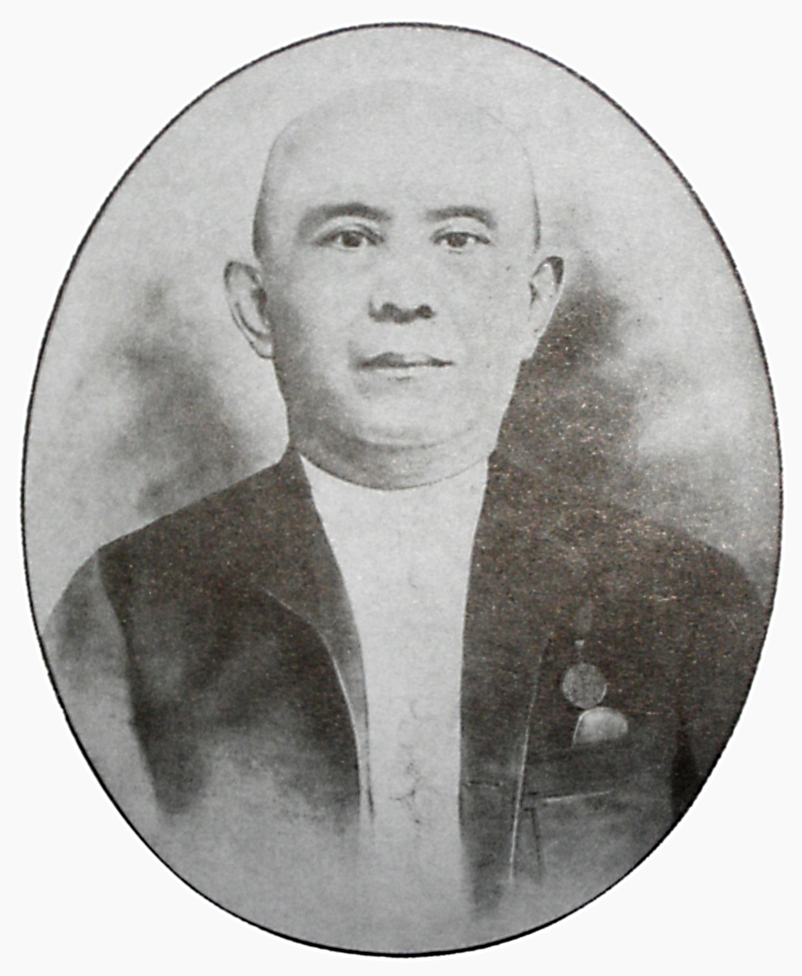 Chinese Indonesian author Lie Kim Hok; owing to the difficulty with PNG thumbs, the background has been rendered the same colour as Wikipedia infoboxes